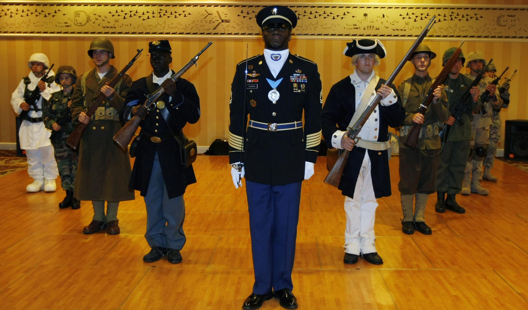 Members of U.S. Army Alaska's Sergeant Audie Murphy Club tell the story of the noncommissioned officer with the historical presentation "I Am the Sergeant." Photo credit: Staff Sgt. Ryan Creel. Read more of Alaska soldiers celebrate Army's 234th Birthday on